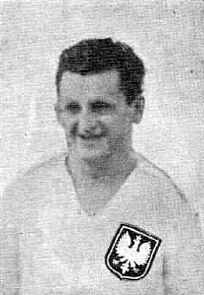 Polish football player Karol Kossok